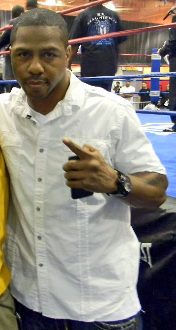 Monte Barrett at the ringside of the Aviator Arena